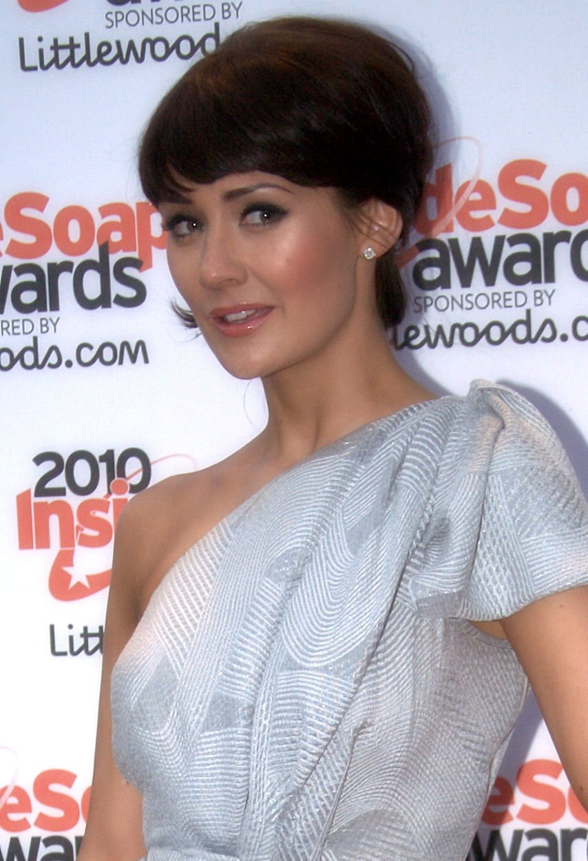 British actress Claire Cooper at the Inside Soap Awards on 27 September 2010, photographed by Ian Smith.